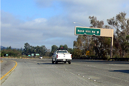 The sign for the Sand Hill Road exit from Interstate 280 (California) northbound. Photographed by user Coolcaesar on the morning of August 18, en:2005.